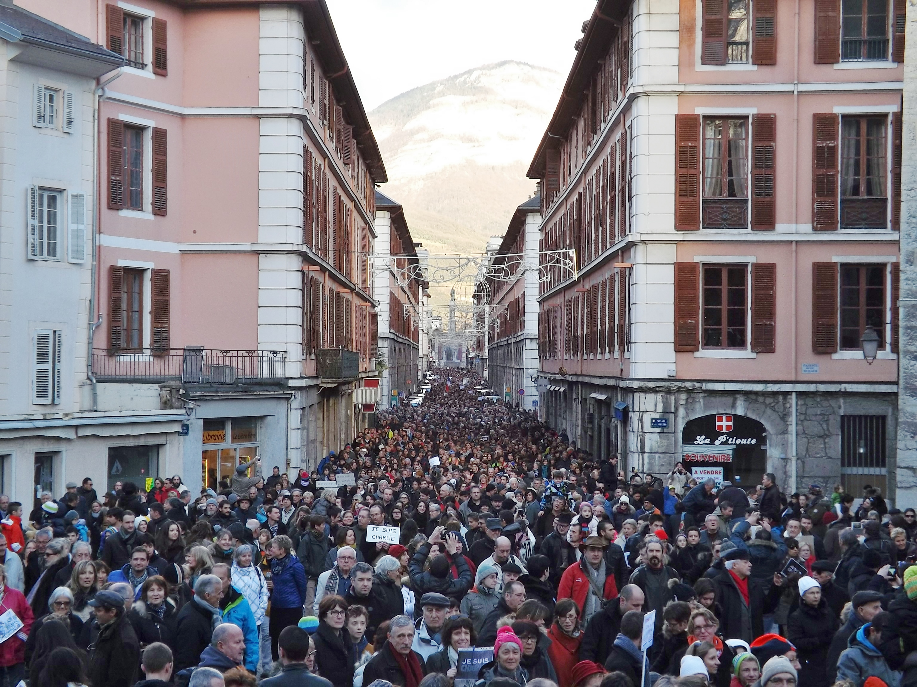 Sight of the marche républicaine rally organised in reaction to the terrorist attacks of January 2015, passing in the rue de Boigne and arriving at the foot of the Chambéry's castle, in Savoie, France.